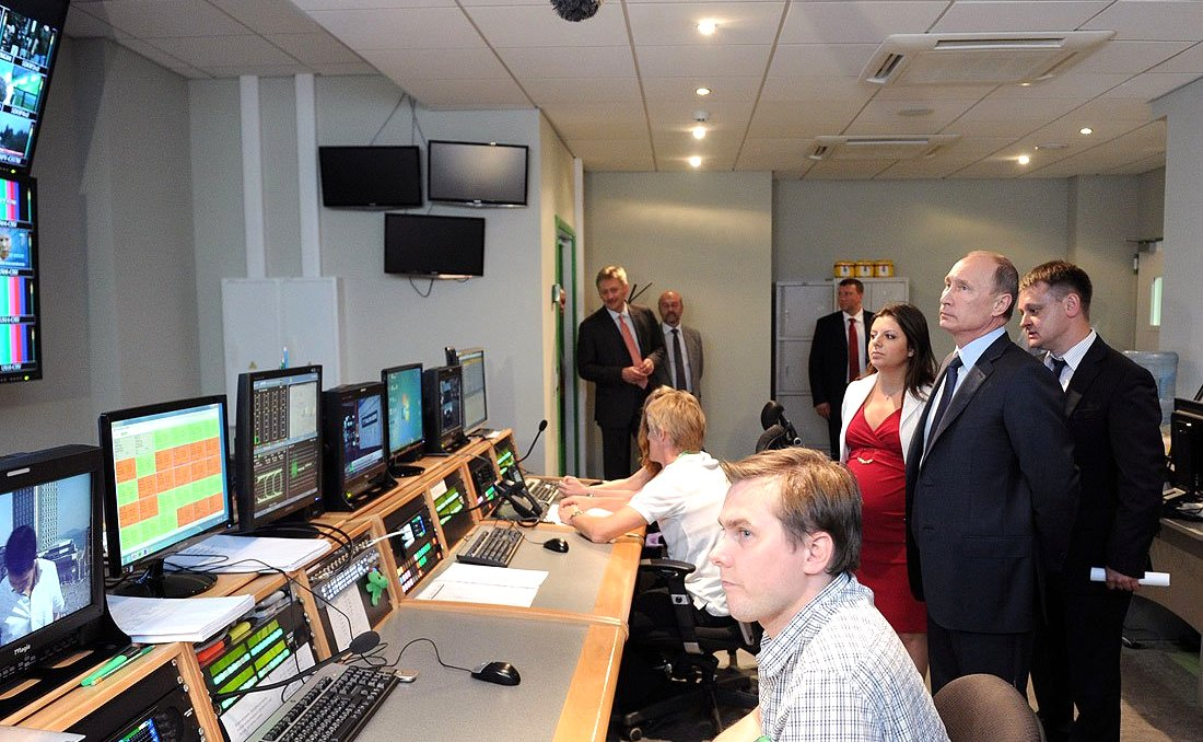 Vladimir Putin visited the new Russia Today broadcasting centre and met with the channel's leadership and correspondents